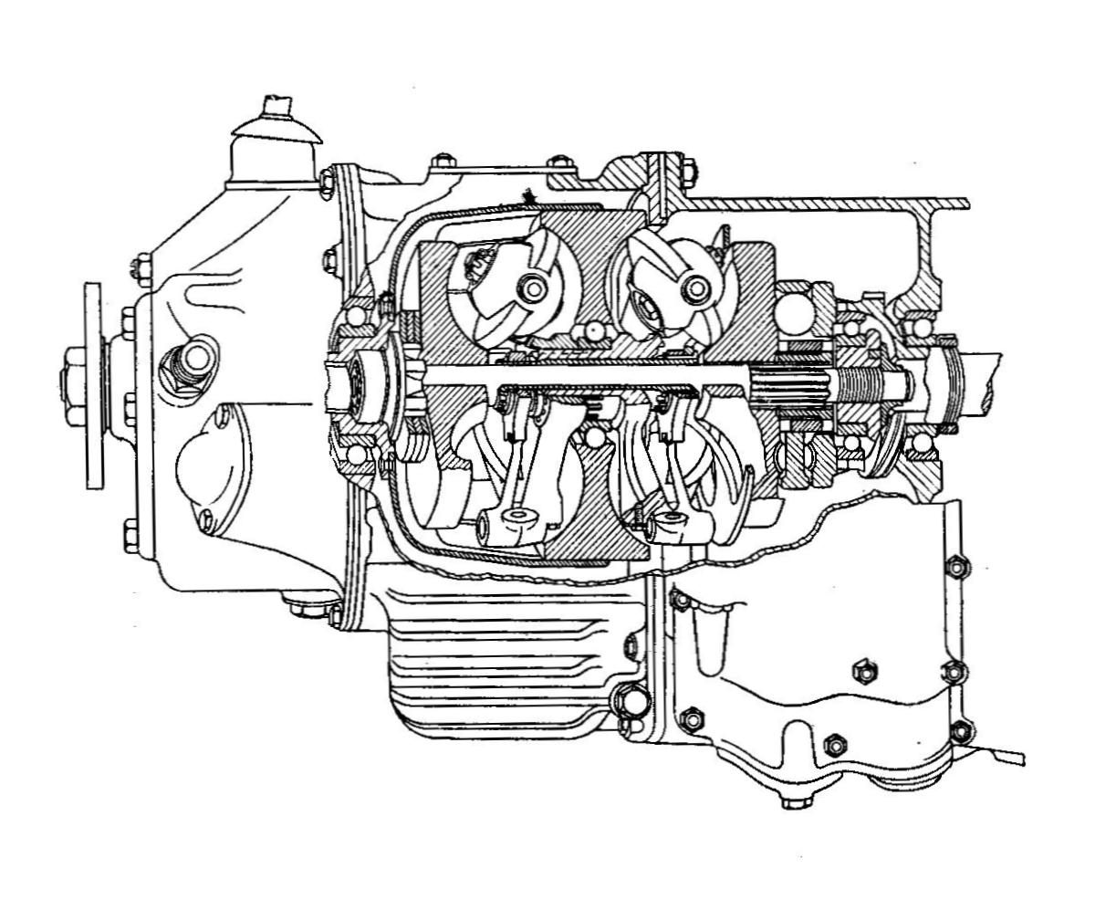 Hayes continuously-variable gearbox (Autocar Handbook, 13th ed, 1935).jpg